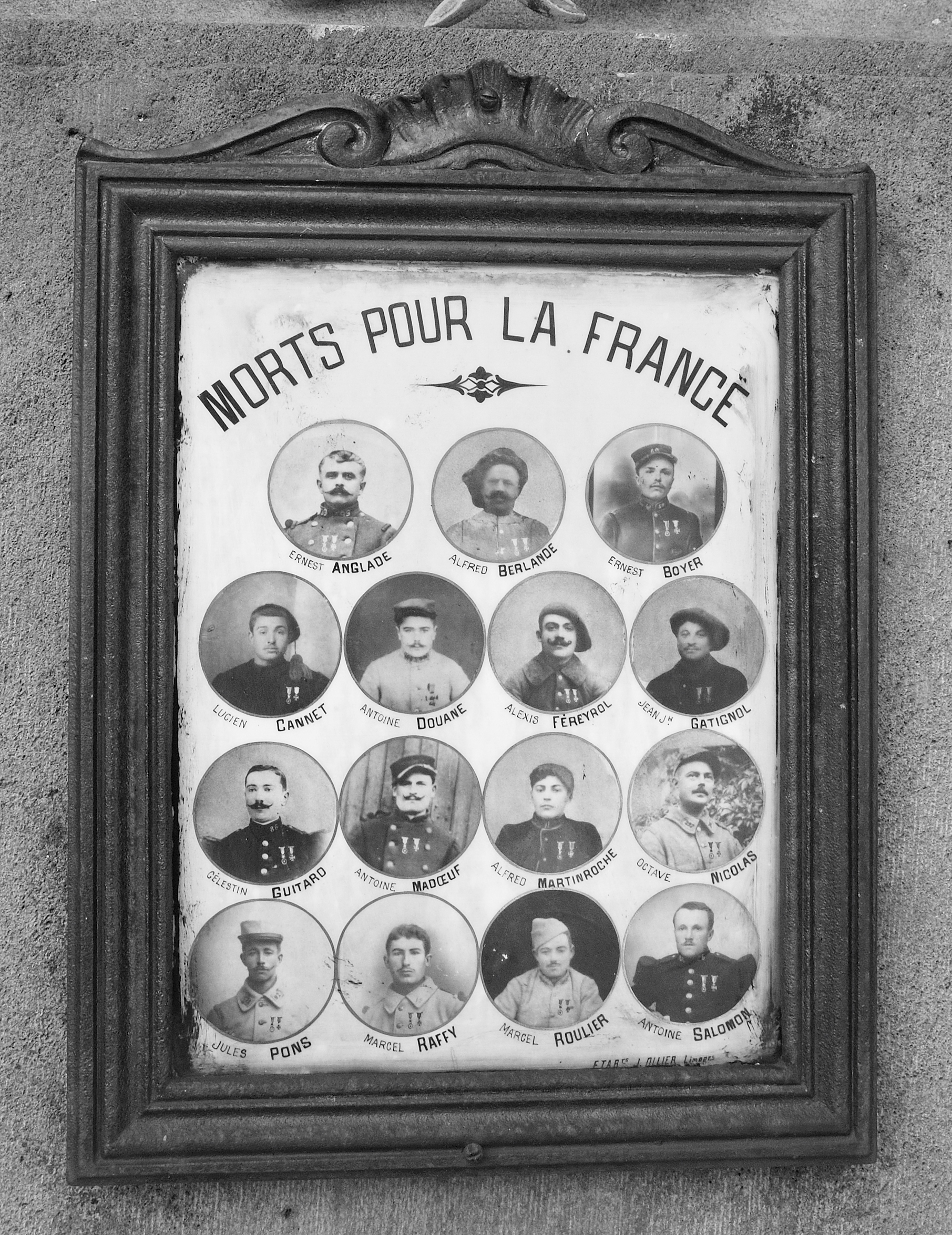 Cemetery of Montaigut-le-Blanc, war memorial : tribute to the inhabitants of the village killed during the first world war, (Puy-de-Dôme, France). Enamelled sheet, manucfactured in "Établissements J. Ollier" in Limoges. Translations in other languages are welcome.